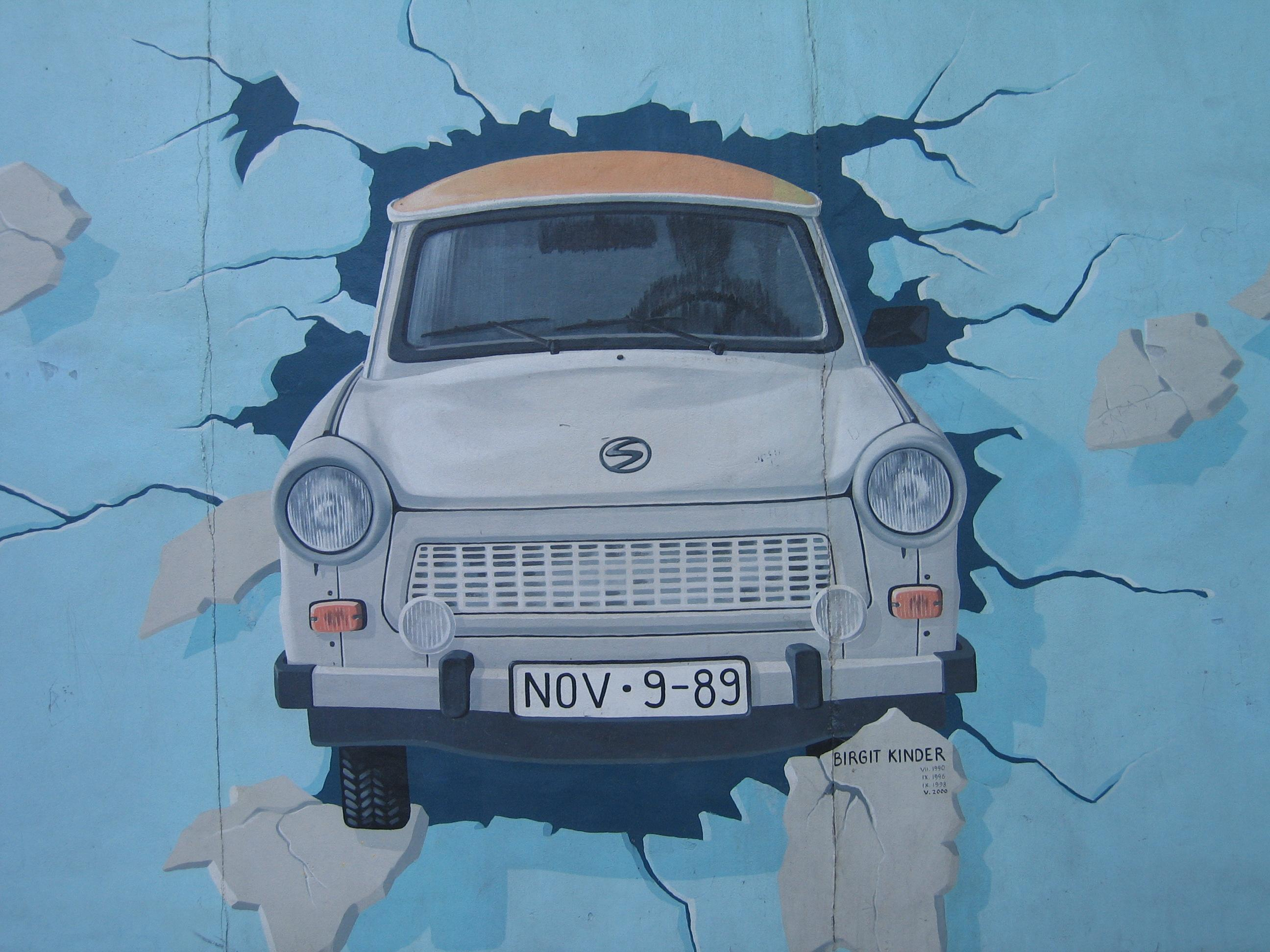 Trabant bursting through Berlin Wall